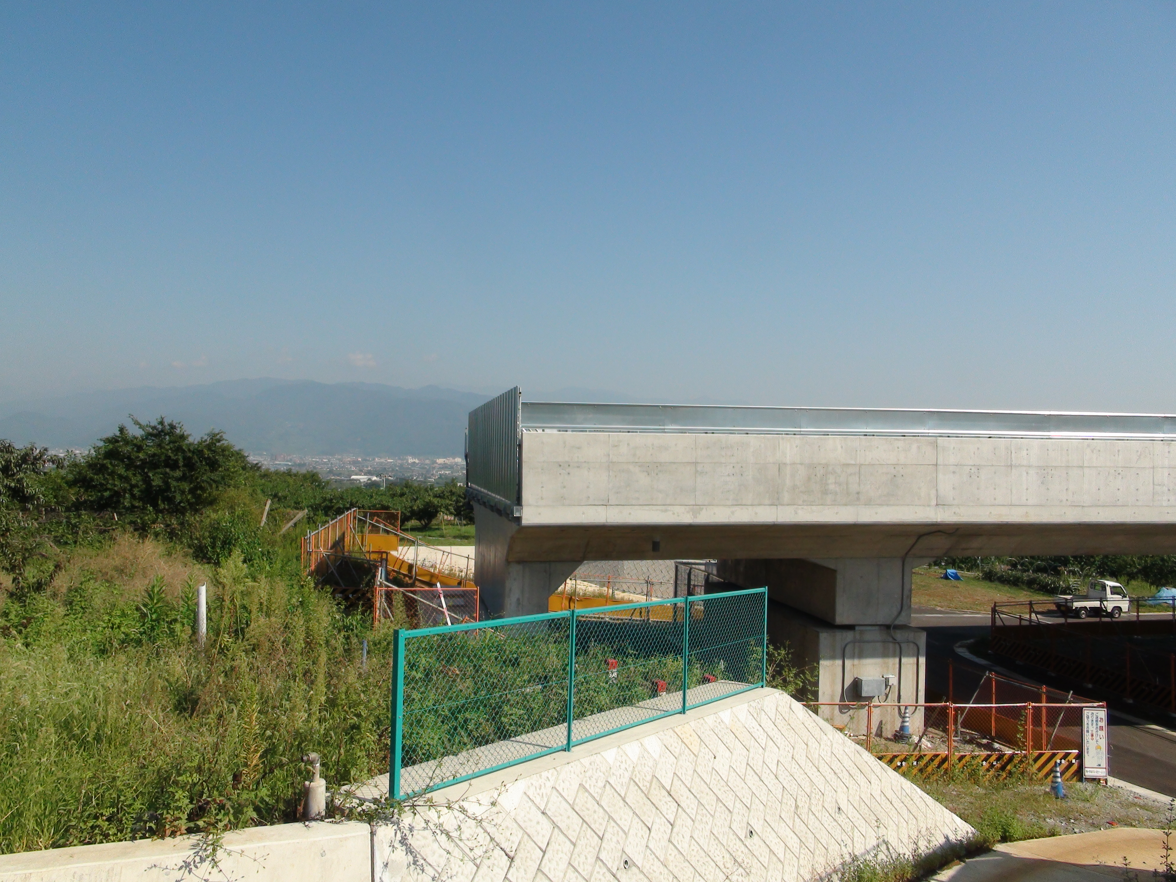 Chuo Shinkansen Yamanashi test track the westernmost tip end.Sept.2013